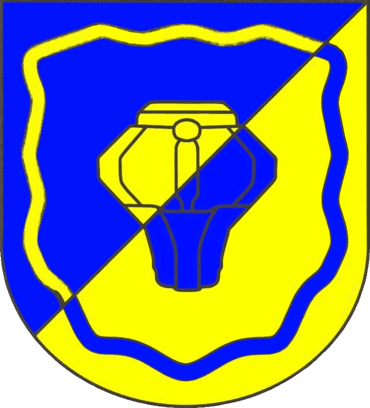 Coat of arms of the municipality Twedt in Schleswig-Holstein, Germany.